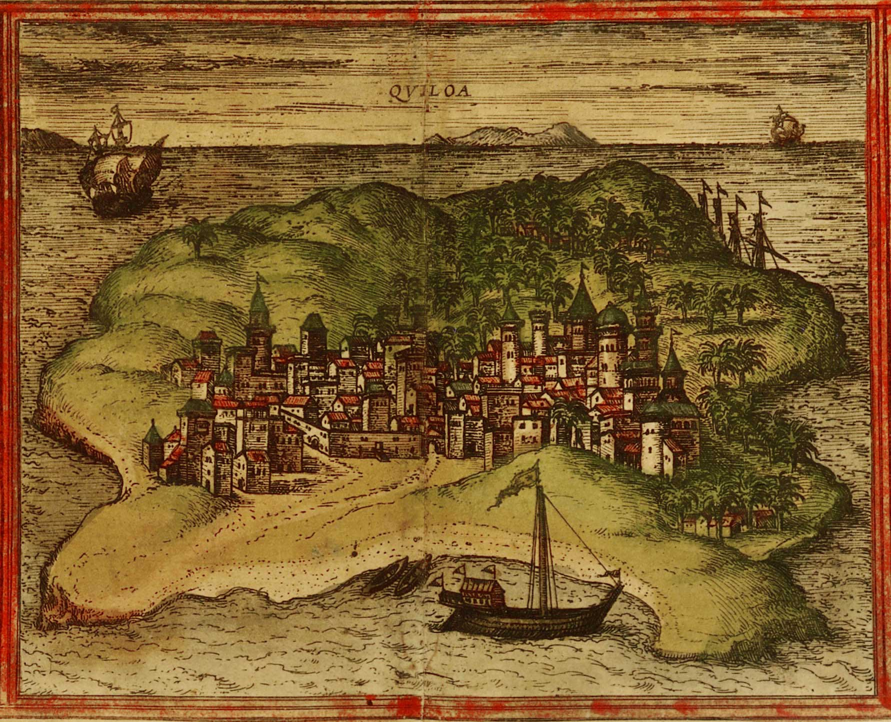 Quiloa - bird's-eye view of the city of Kilwa (Tanzania) from Georg Braun and Franz Hogenberg's atlas Civitates orbis terrarum, vol. I, 1572